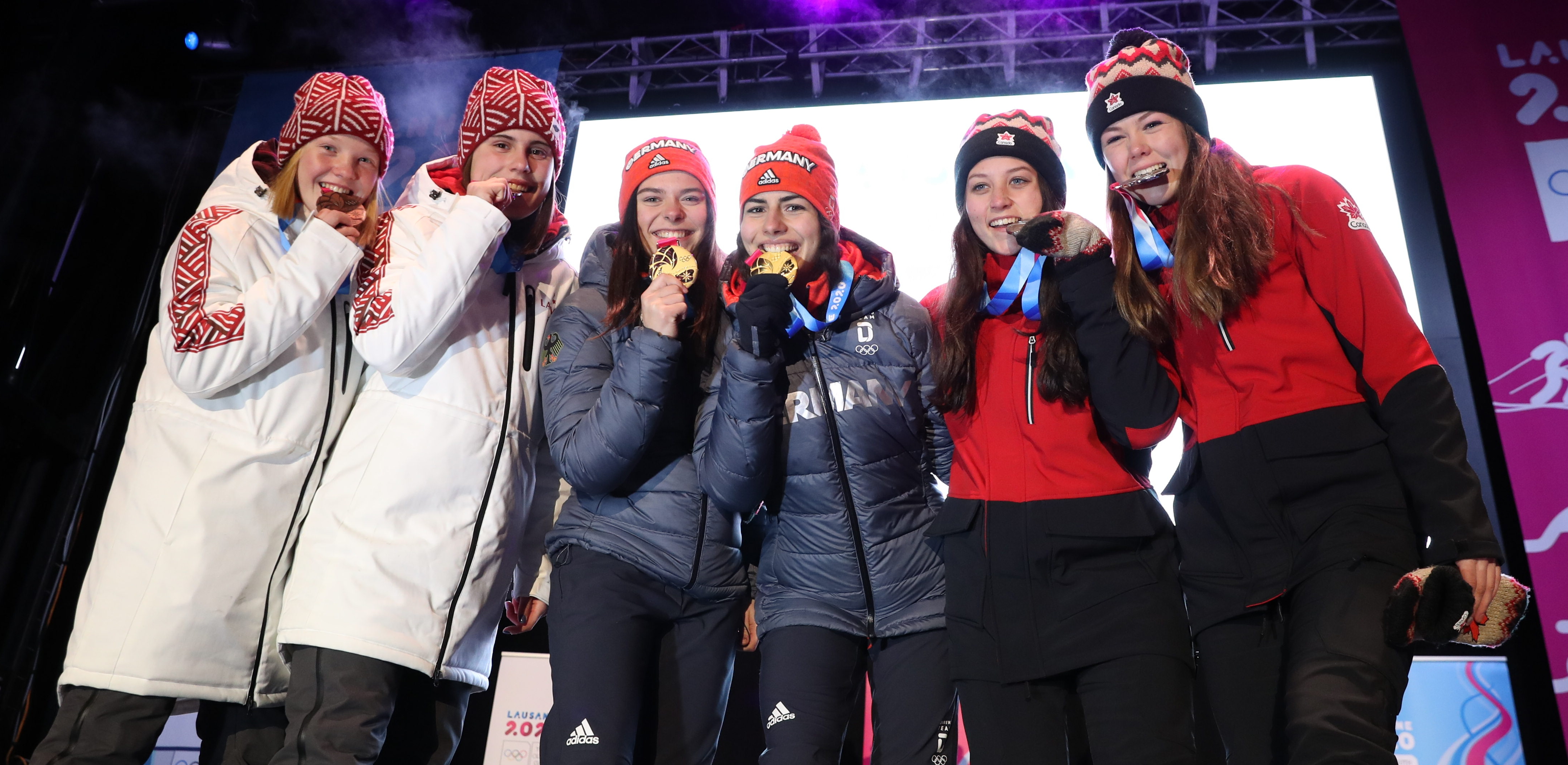 Medal Ceremony Day 9 in St. Moritz, 2020 Winter Youth Olympics in Lausanne